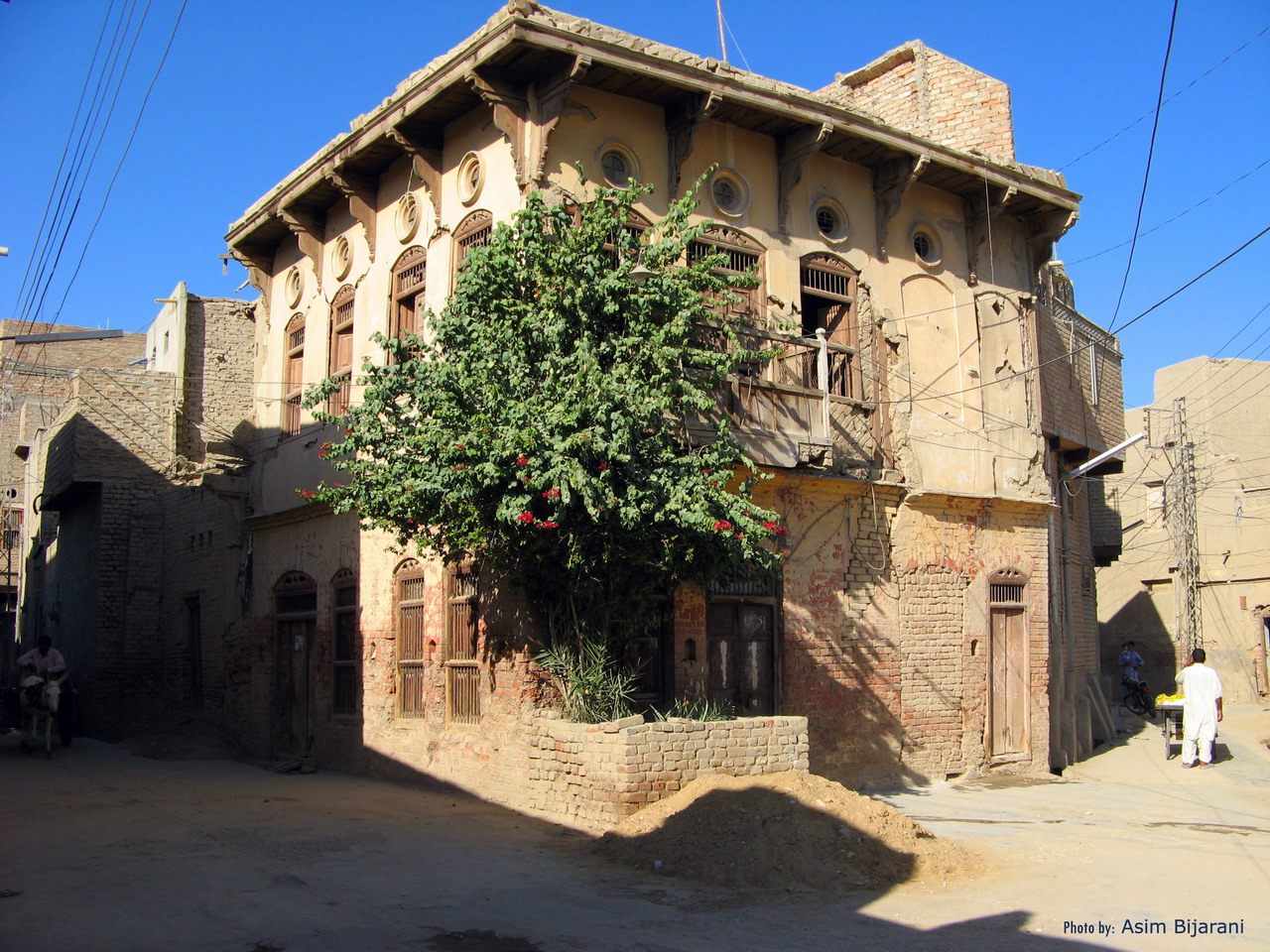 One of the very old place located in Shikarpur town, shows the typical old architecture of the historical district of Pakistan